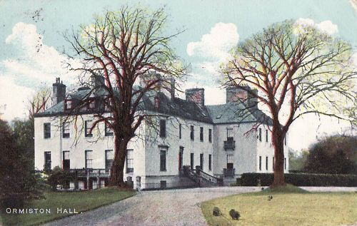 Ormiston Hall, now a ruin following a fire.